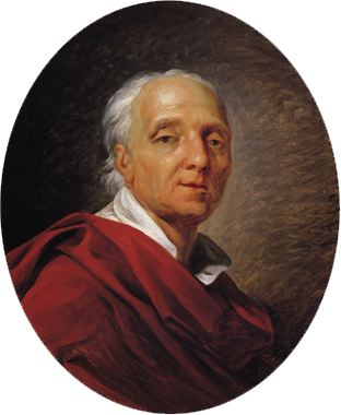 Jean-Simon Berthélemy, Denis Diderot (1784) Paris, musée Carnavalet[1].